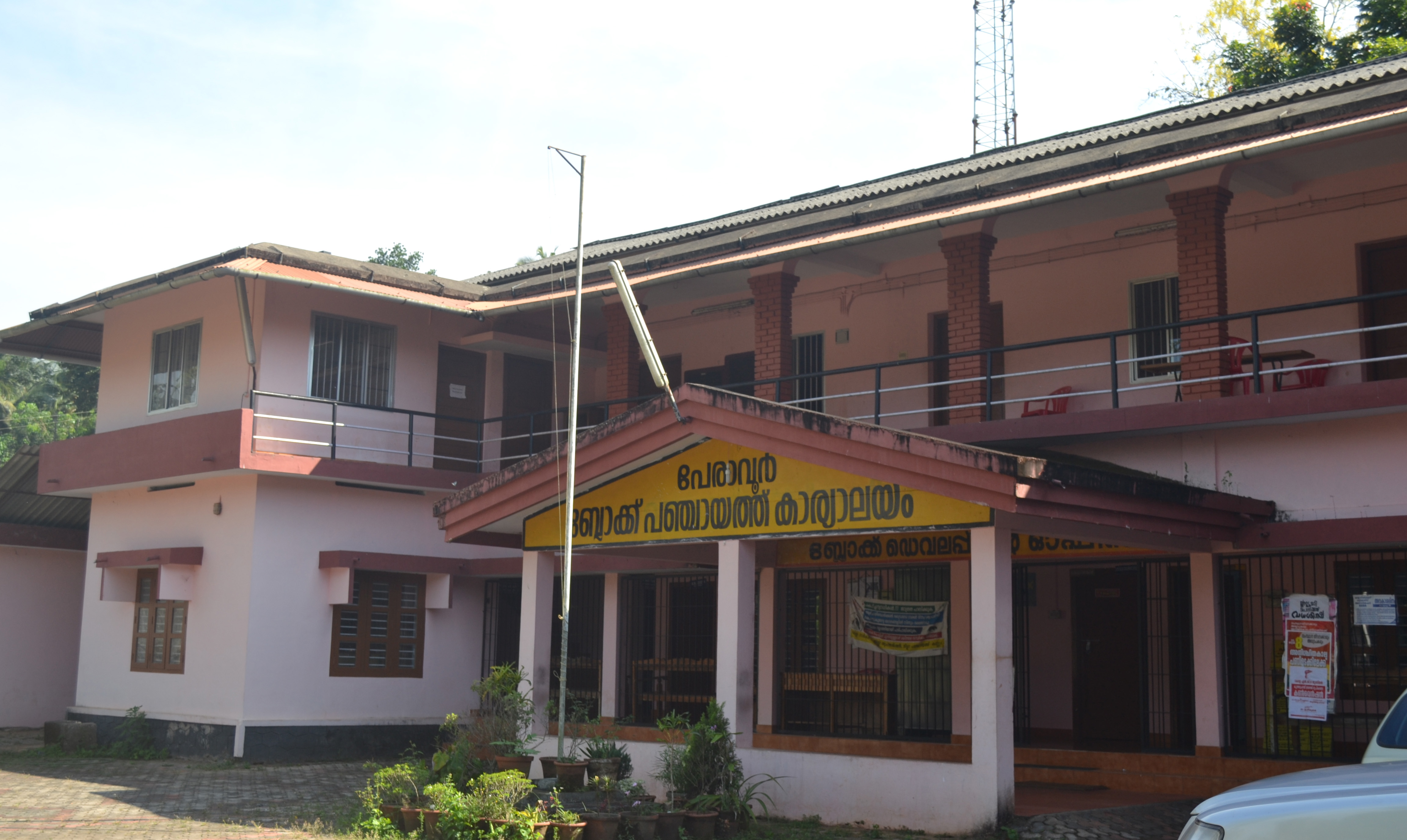 Peravoor Block Panchayath Building